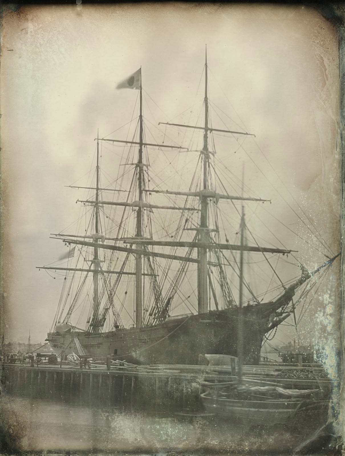 "Champion of the Seas," East Boston. about 1854. Southworth and Hawes, American, 19th century. Plate: 21.7 x 16.7 cm (8 9/16 x 6 9/16 in.) Photograph, daguerreotype. Museum of Fine Arts, Boston